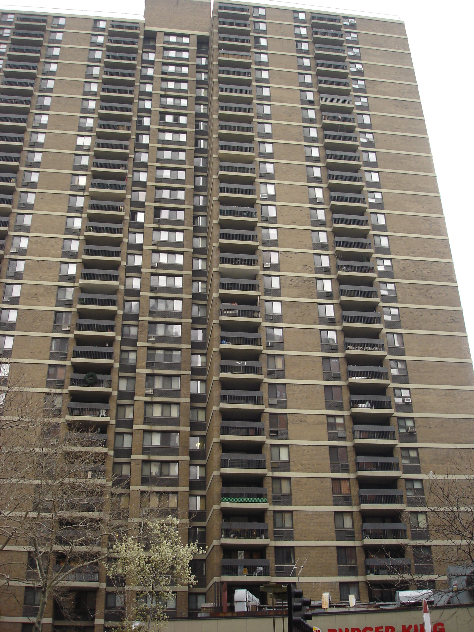 This photo is of Wikipedia Takes Manhattan location code 154, Southbridge Towers.